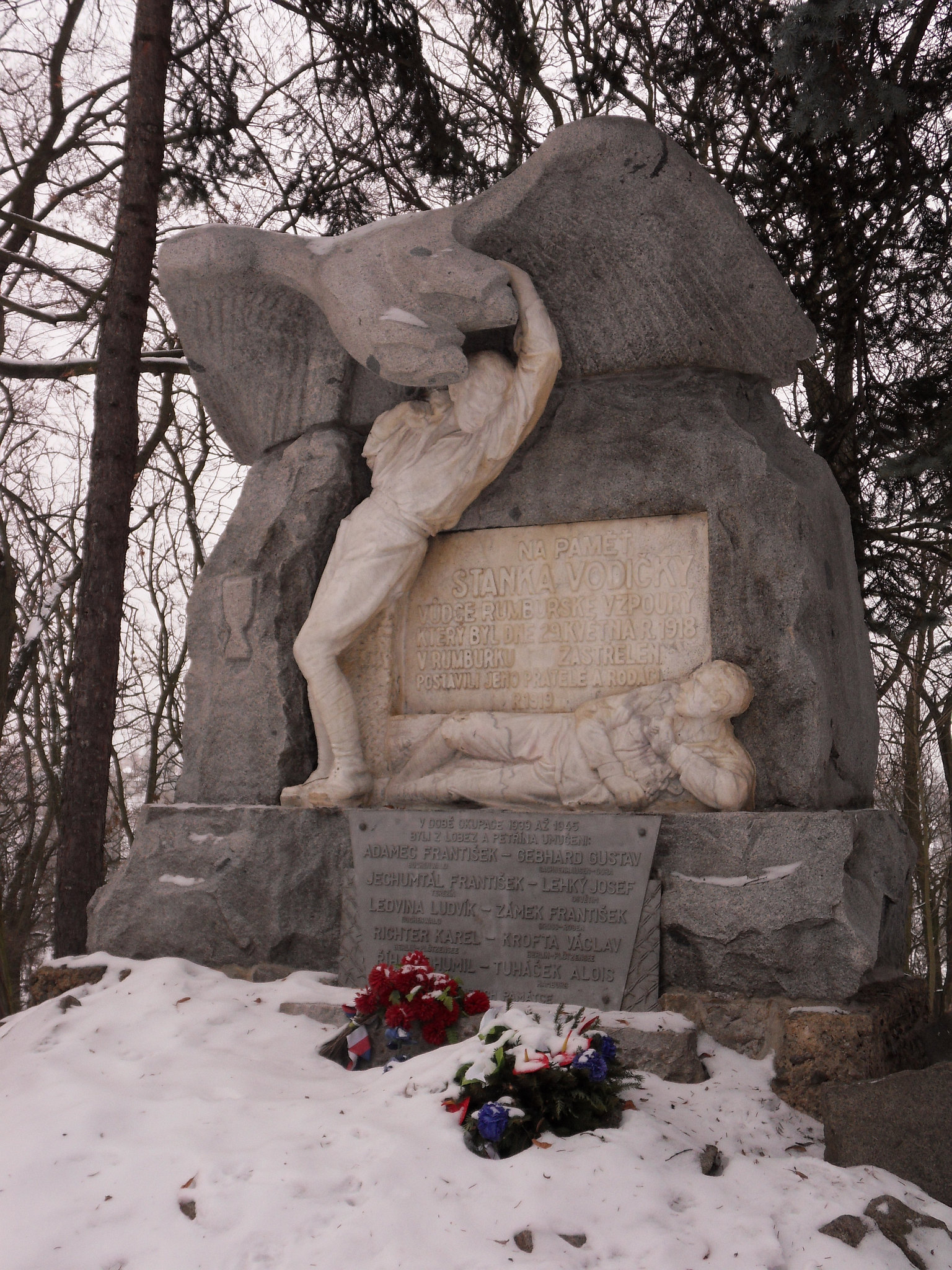 Memorial of Stanko Vodička - the executed leader of the revolt in 1918 Rumburk. The plaque below rembers the victims of World War II